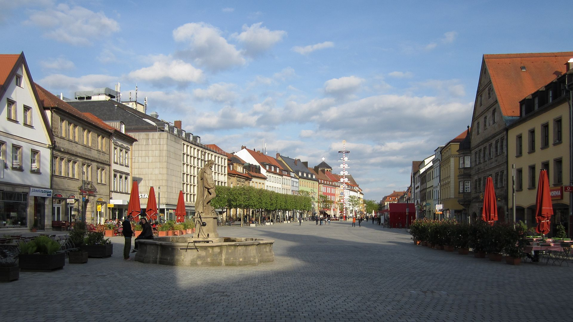 Maximilianstrasse Bayreuth, main market with Neptun fountain